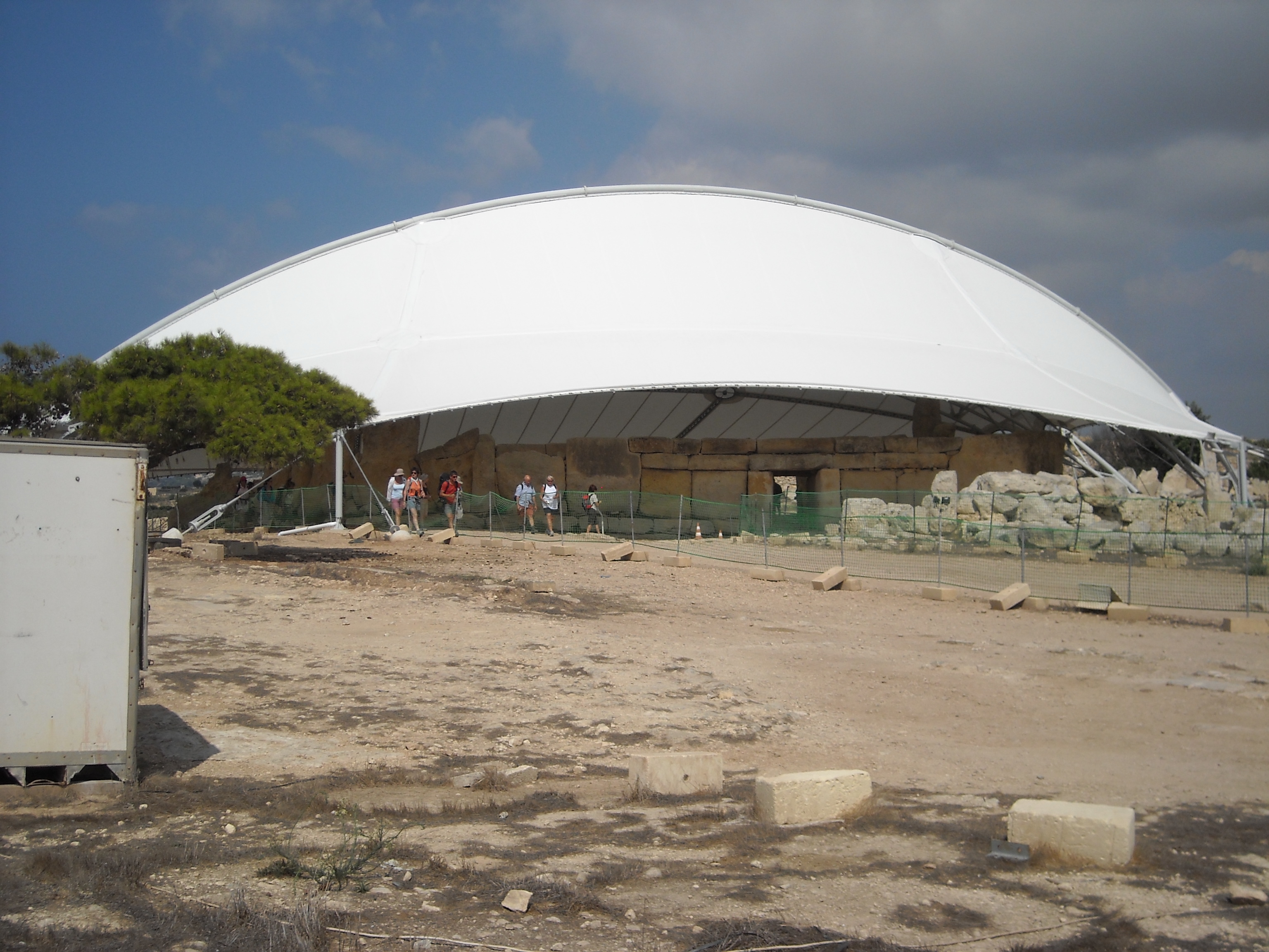 Temple of Hagar Qim, Malta, with the coverture